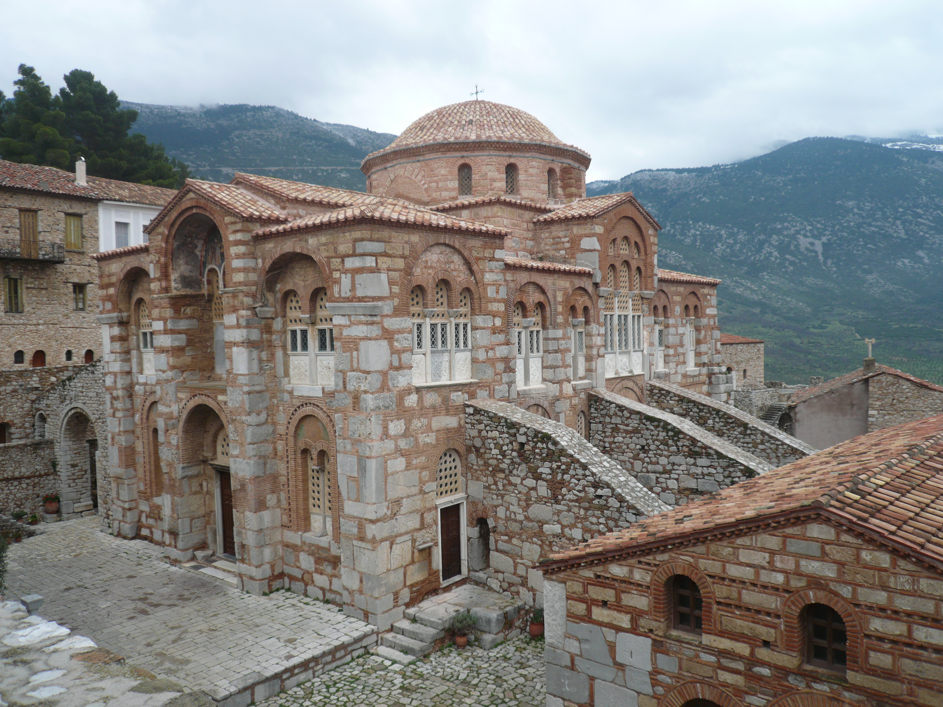 Osios Loukas